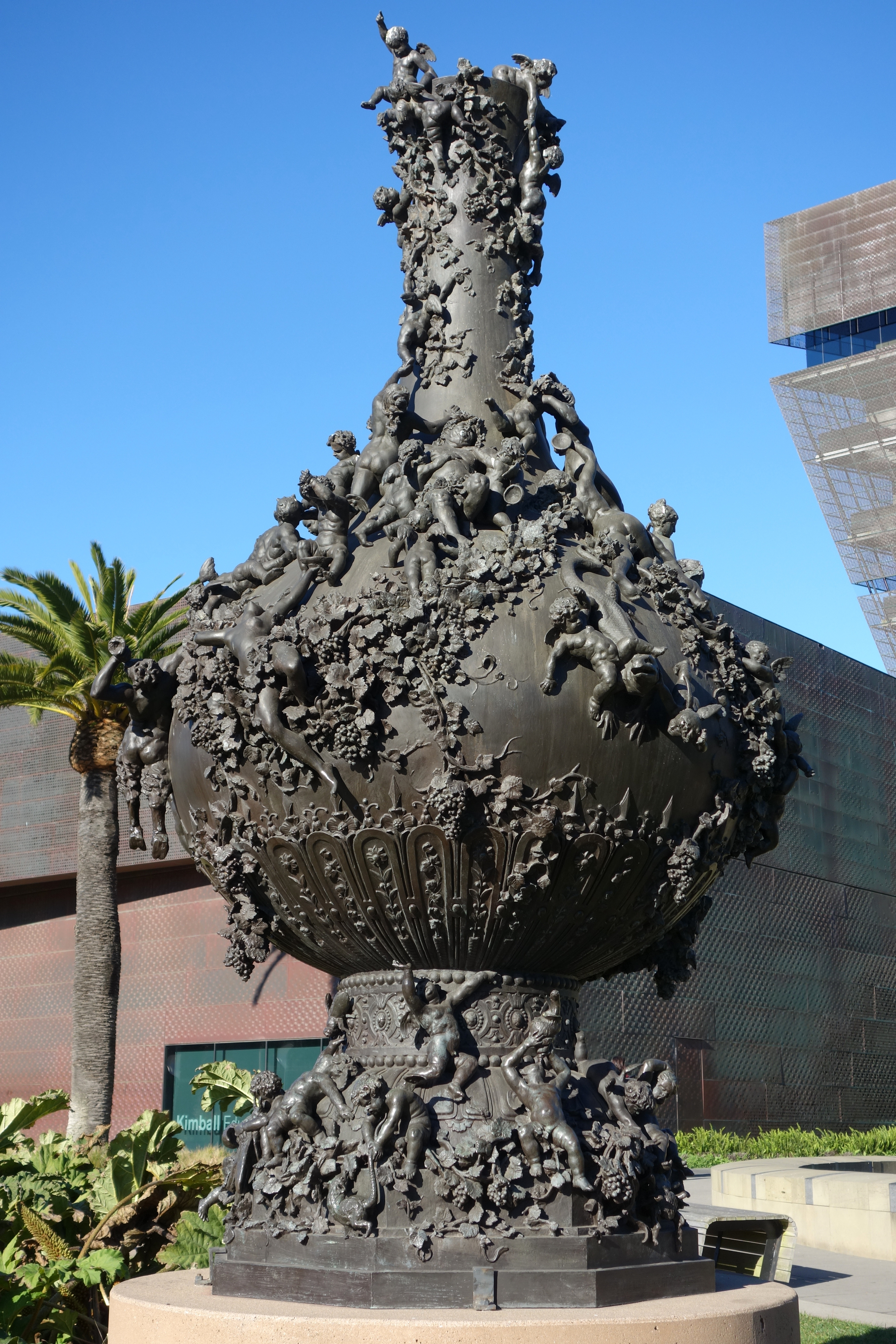 Poème de la Vigne by Gustave Doré, created in 1878 for Paris World's Fair, this copy cast in 1882, bronze - De Young Museum, Golden Gate Park, San Francisco, California, USA. This artwork is in the public domain because the artist died more than 70 years ago.